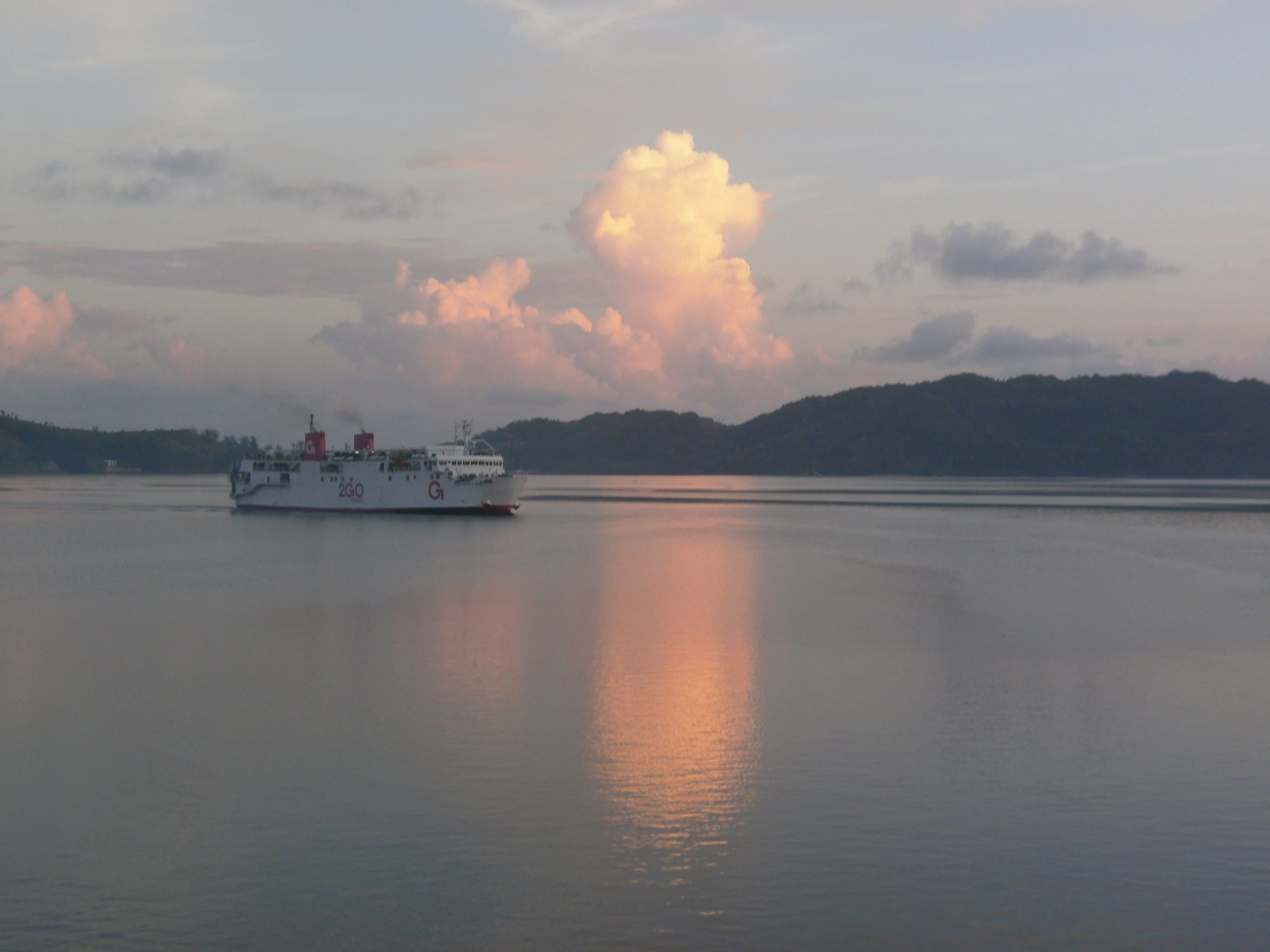 One of ships of 2Go at Romblon Bay